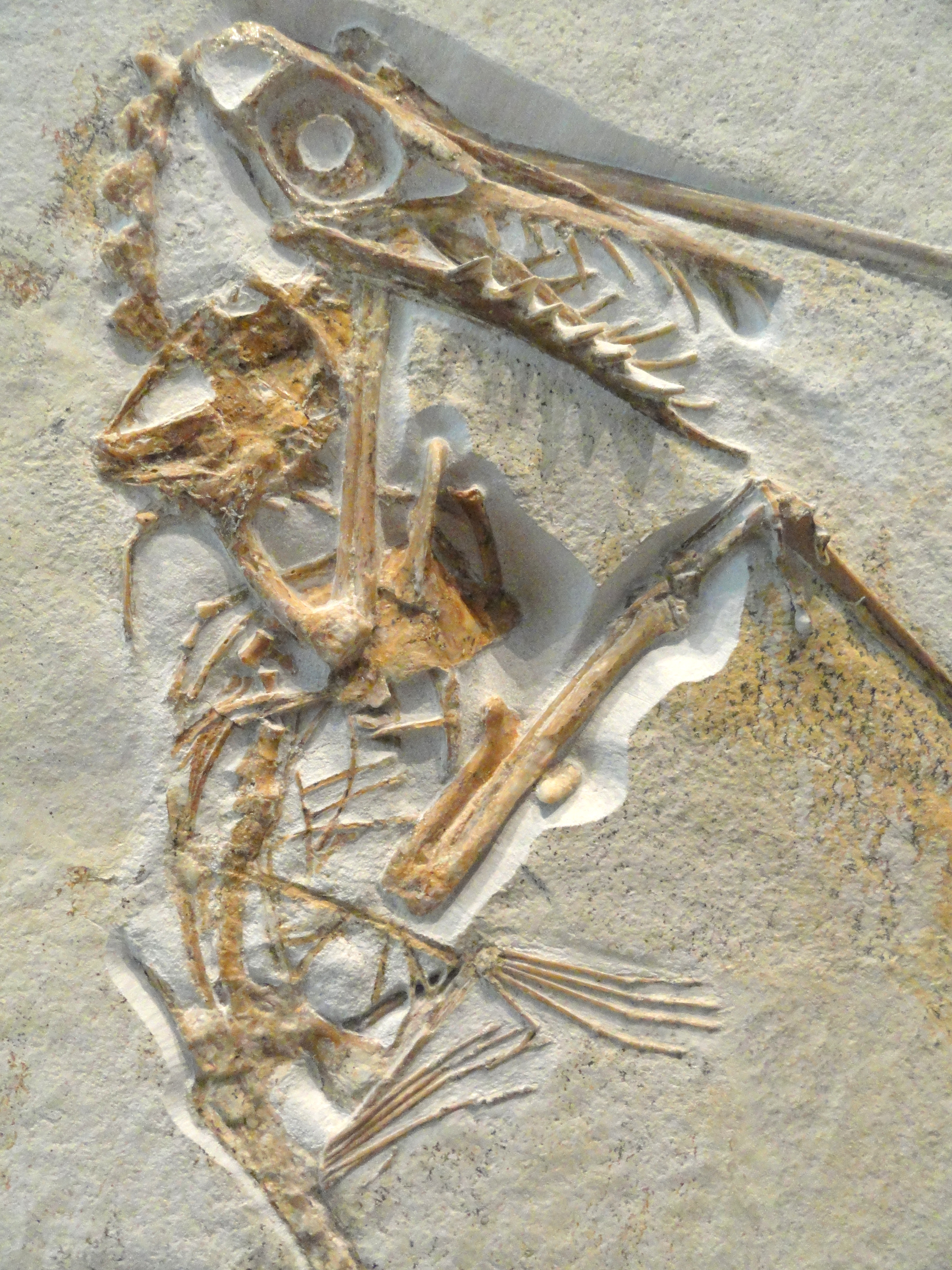 Exhibit in the Royal Ontario Museum, Toronto, Ontario, Canada. This exhibit is old enough so that it is in the public domain, and photography was permitted in the museum. I took this photograph and release it into the public domain.